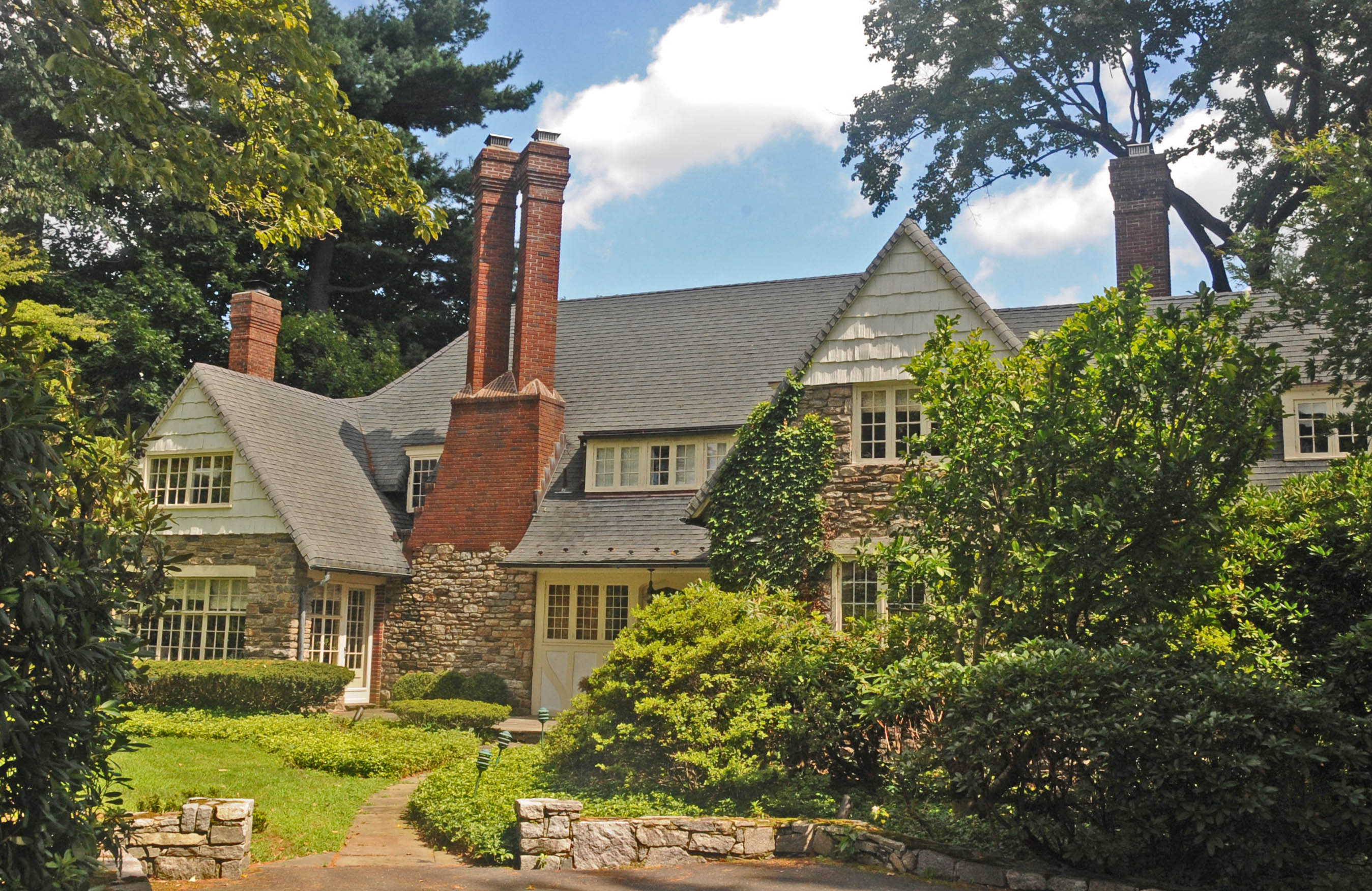 BUILT CIRCA 1923 BY ARCHITECT CHARLES E. CUTLER OF WESTPORT; PRIMARILY MADE OF RANDOM COURSED FIELDSTONE; HOUISE IS AT 12 OLD HILL ROAD